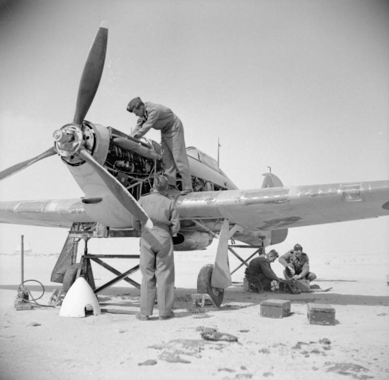 IWM caption : Fitters working on the engine of a Hawker Hurricane of No 237 (Rhodesian) Squadron, Royal Air Force in Iran. Composed mainly of Rhodesian pilots, the squadron also saw action in the Western Desert and Italy.